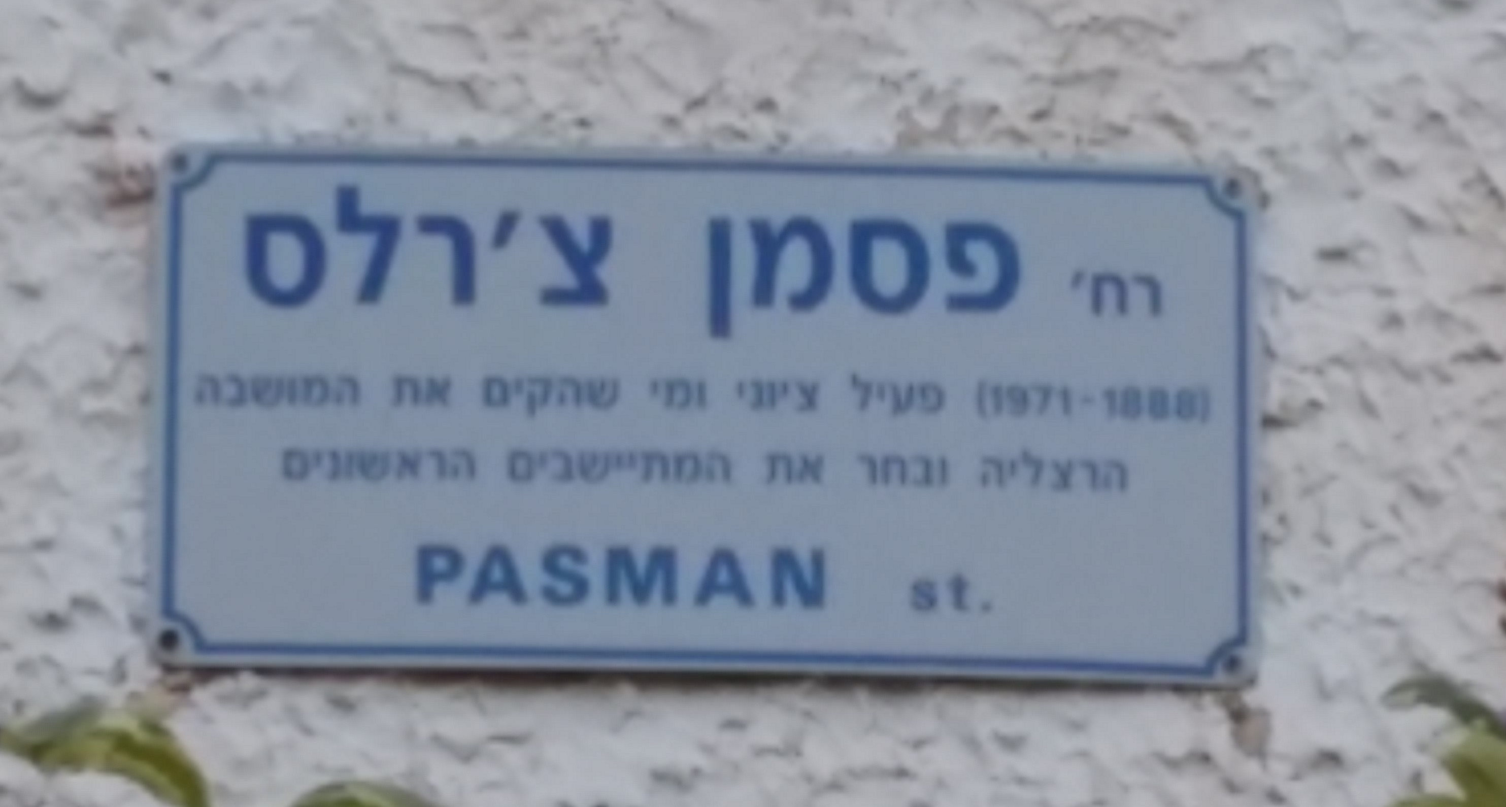 Charles Passman street, Herzliya